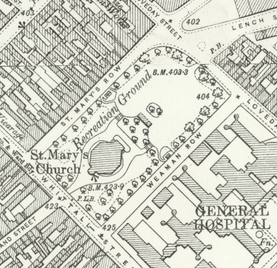 St Mary's Church, Whittall Street, Birmingham, England, on the Ordnance Survey 25 inch map of 1892-1914.